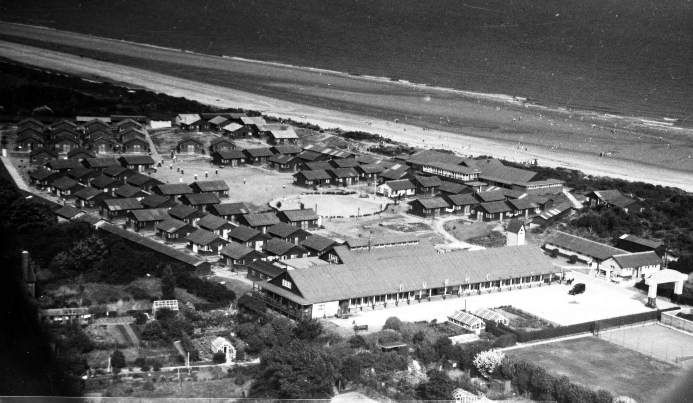 Photograph showing the original wooden structures of the Derbyshire Miners' Holiday camp.